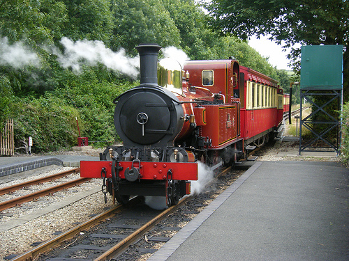 Train approaching Santon Station in the Isle of Man